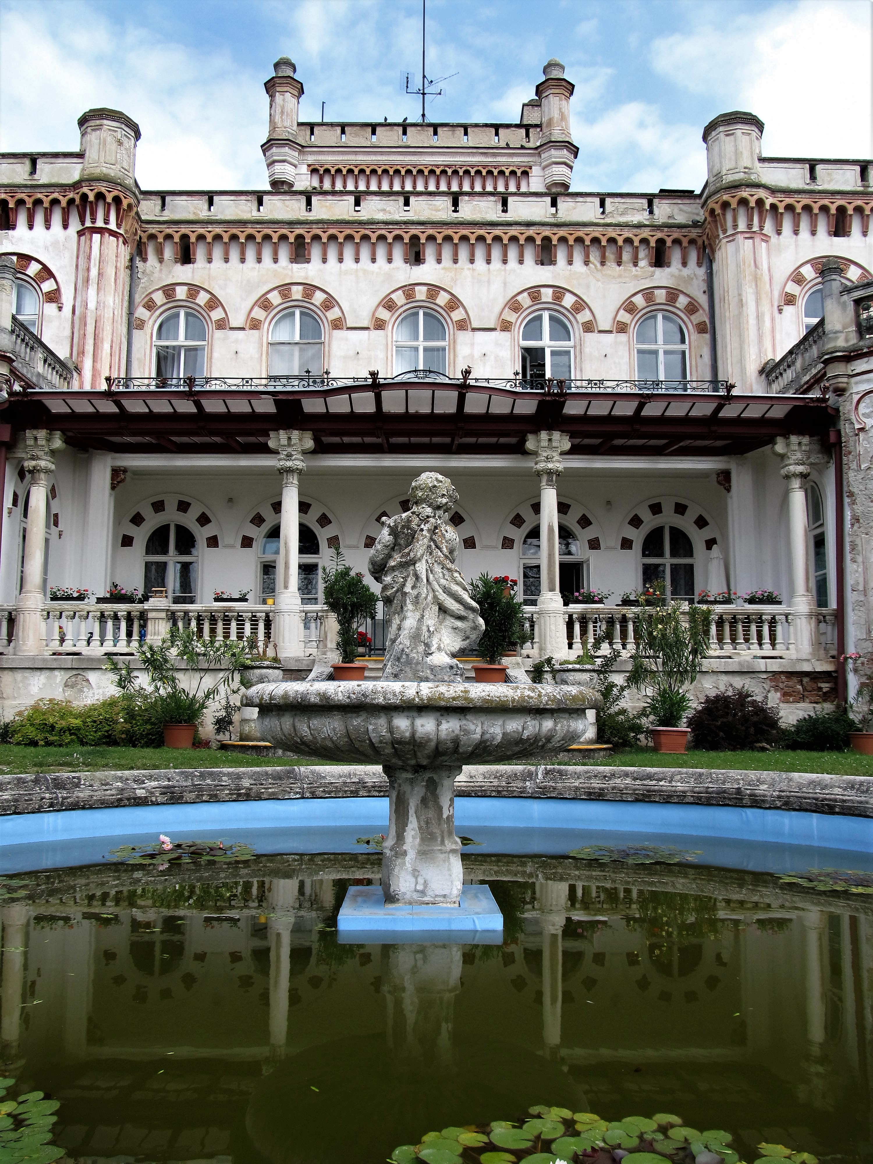 Jevišovice, Znojmo District, Czechia. New Castle.